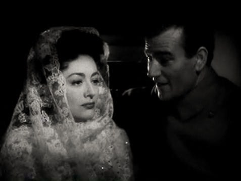 Joan Crawford and John Wayne in Reunion in France (1942) - trailer (cropped screenshot)